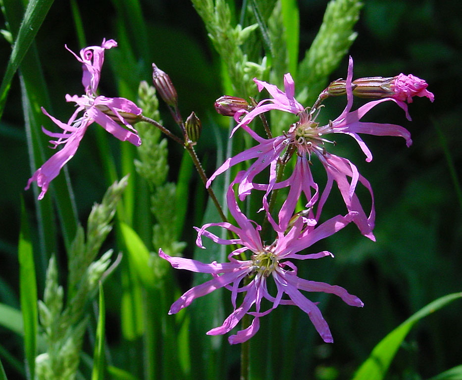 Ragged Robin